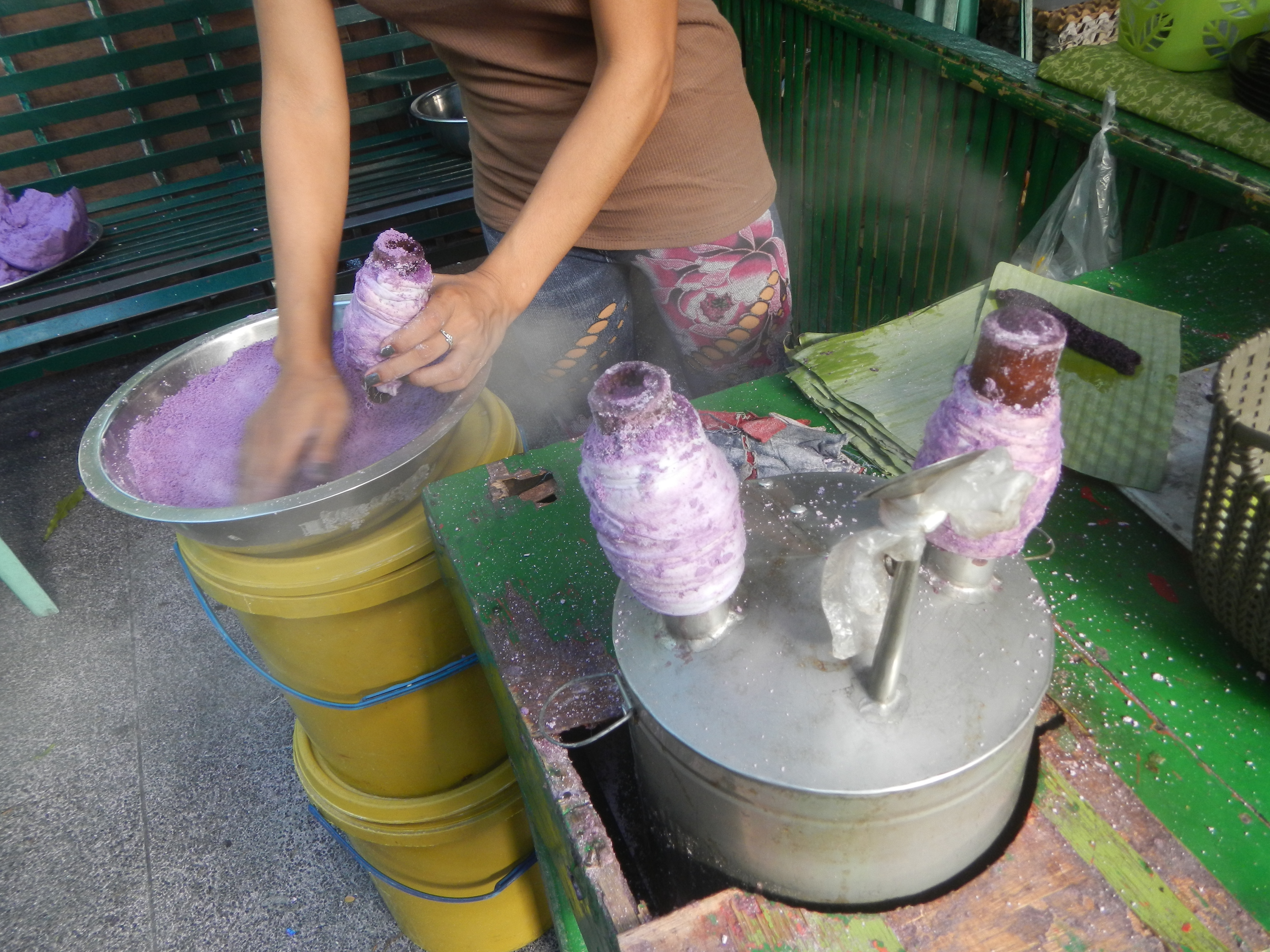 Jovy's Pancit Malabon, Sinigang, Adobo, No dumping sign, Bibingka and Puto bumbong making in the Philippines, Breads of the Philippines, Macapuno pastillas, Hopia, Chocolate Brownies all taken in Barangay Poblacion 14°57'17"N 120°54'2"E, Baliuag, Bulacan, Bulacan province (Note: Judge Florentino Floro, the owner, to repeat, Donor Florentino Floro of all these photos hereby donate gratuitously, freely and unconditionally Judge Floro all these photos to and for Wikimedia Commons, exclusively, for public use of the public domain, and again without any condition whatsoever).